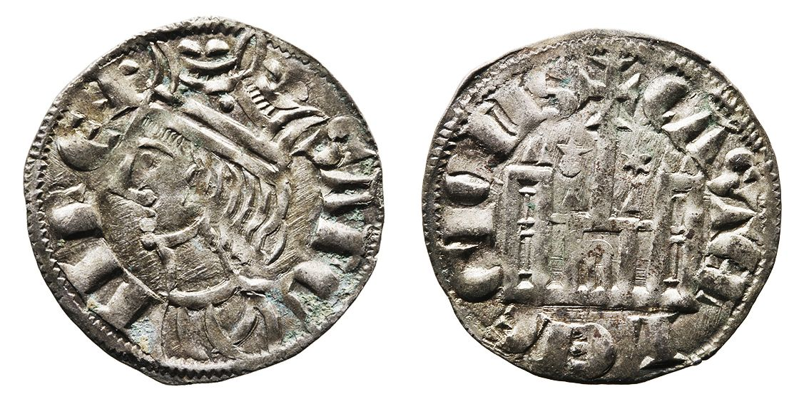 Castilian cornado, billon coin from the reign of Sancho IV of Castile (1284-1295). Minted in La Coruña.